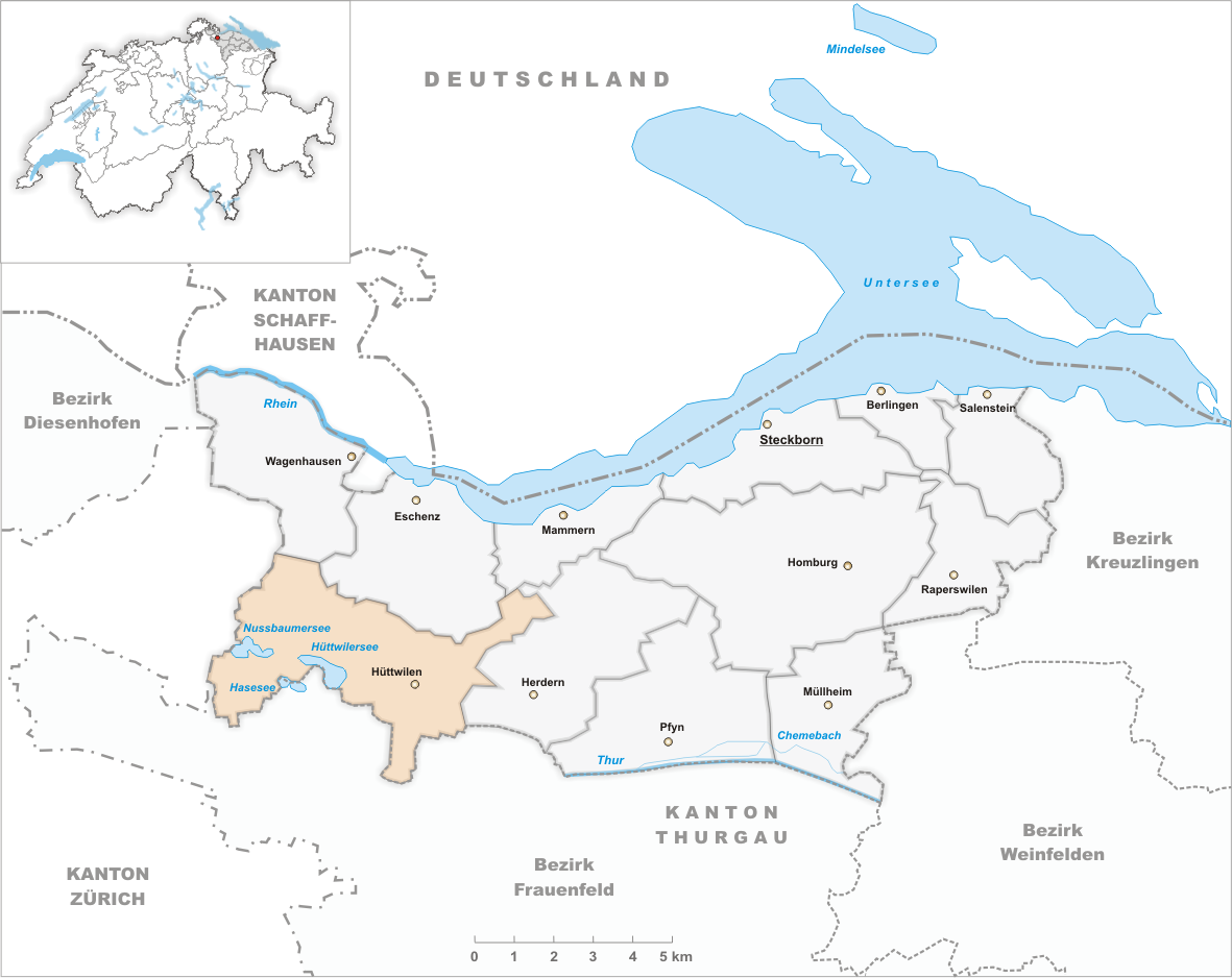 Municipality Hüttwilen